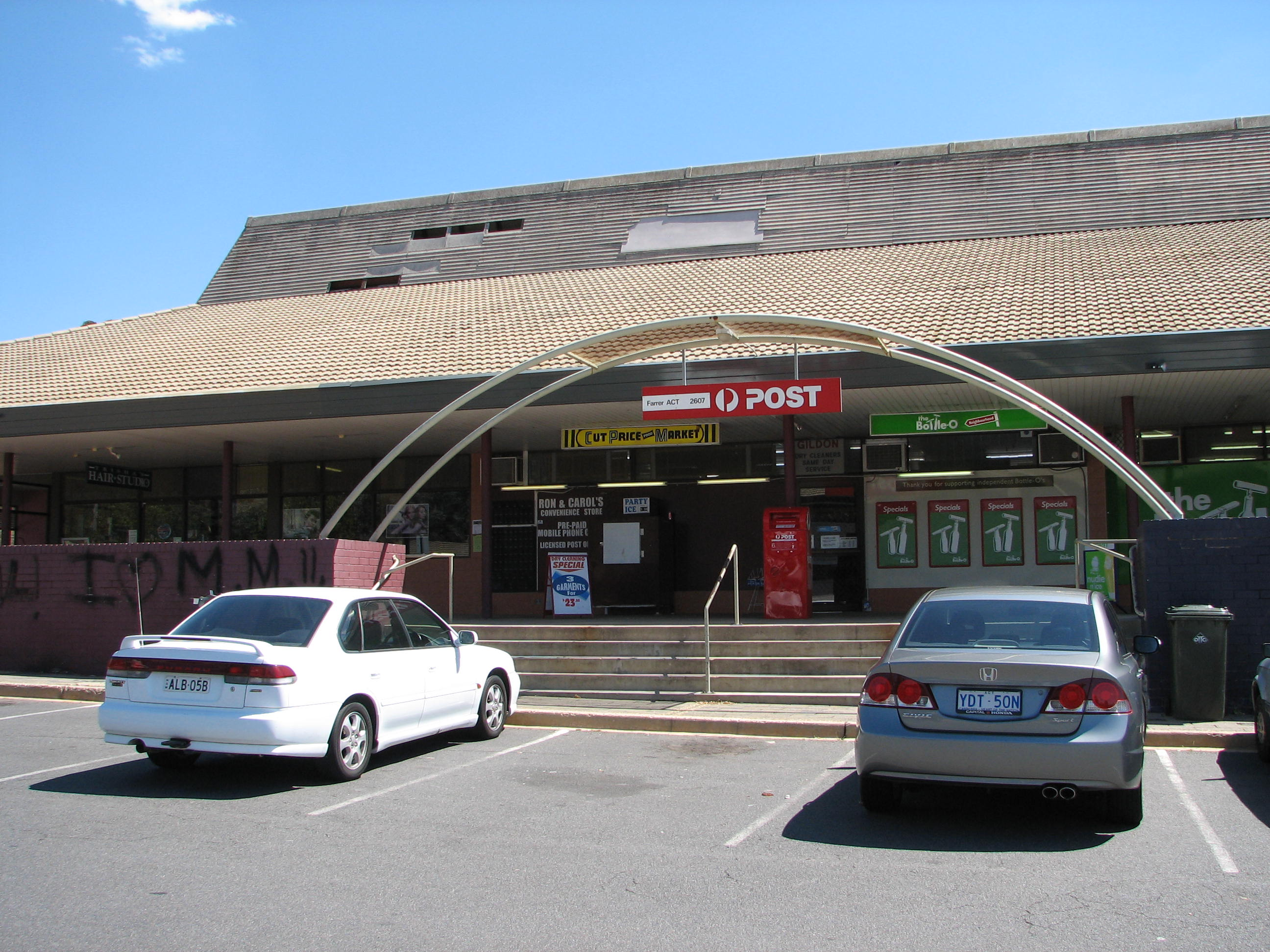 Local shops in Farrer, Australian Capital Territory. Taken by me - Tim Malone - on 20th January 2007.